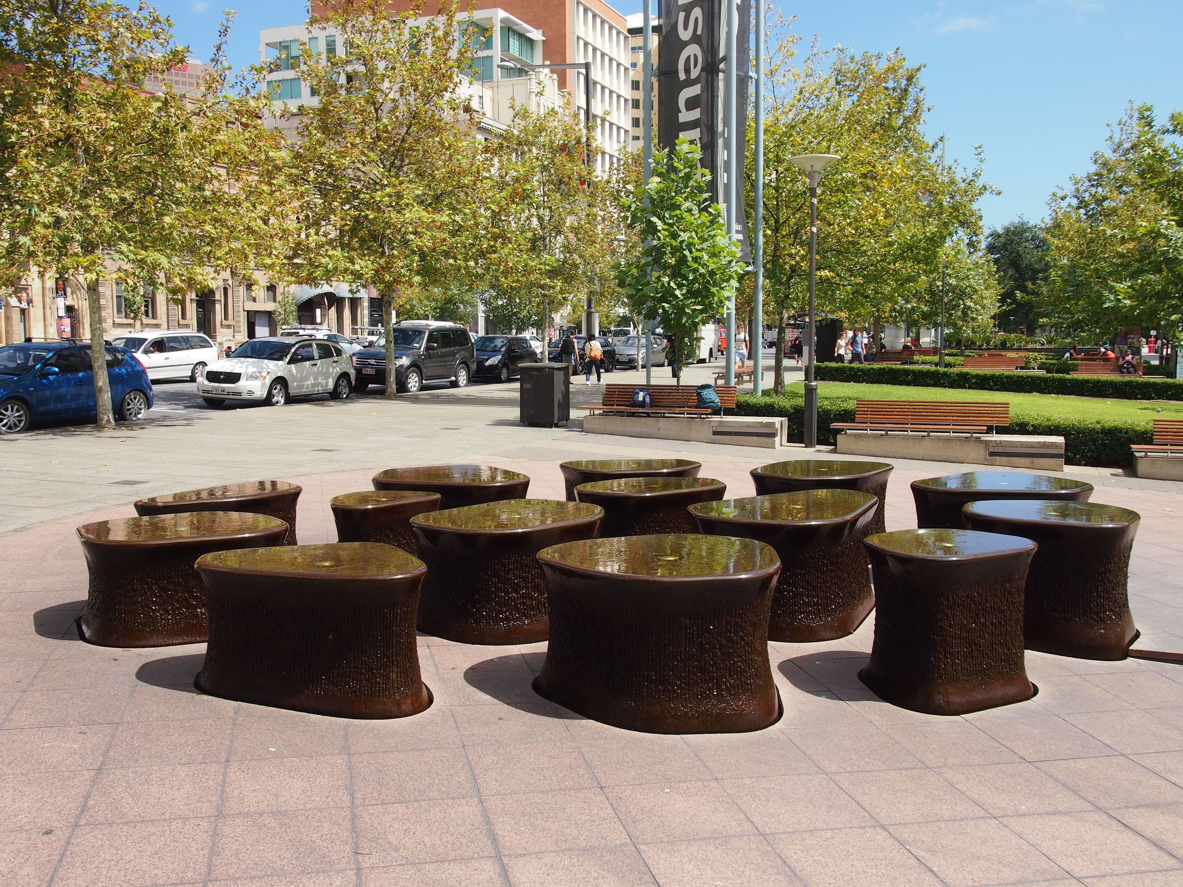 The water feature 14 Pieces by Angela and Hossein Valamanesh, in front of the South Australian Museum on North Terrace, Adelaide, is based on the forms of ichthyosaur vertebrae. Original filename = P3121368.JPG